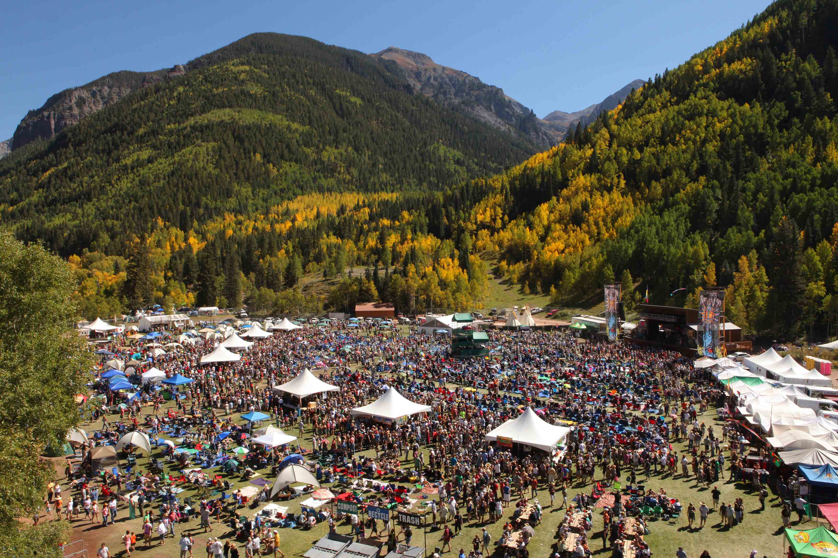 September 18, 2010 - Beer Grand Tasting with 56 microbreweries at the 17th Annual Telluride Blues & Brews Festival - Photo by Barry Brecheisen